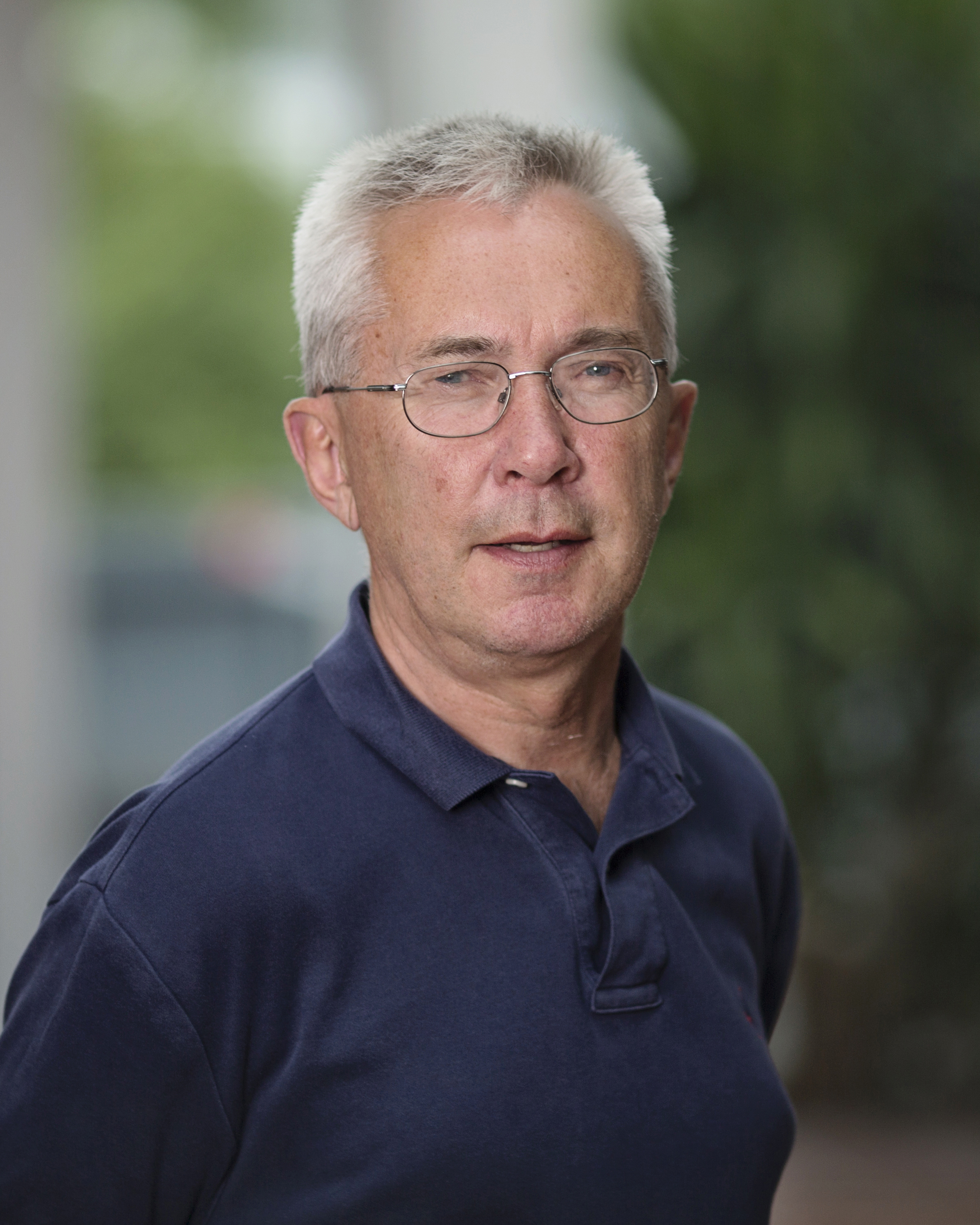 The Norwegian Economist, Professor at NTNU Trondheim, Jørn Rattsø